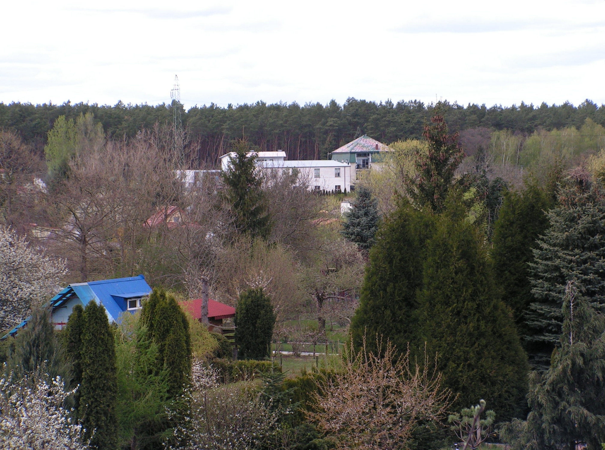 Warehouse on the area of Rodzinne Ogrody Działkowe Przyszłość (Familiar Garden Lots named Future) on the Świech settlement in Włocławek, built in 1980 year.